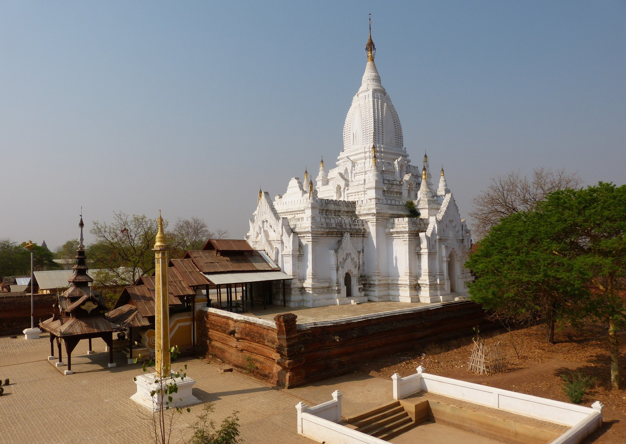 Bagan